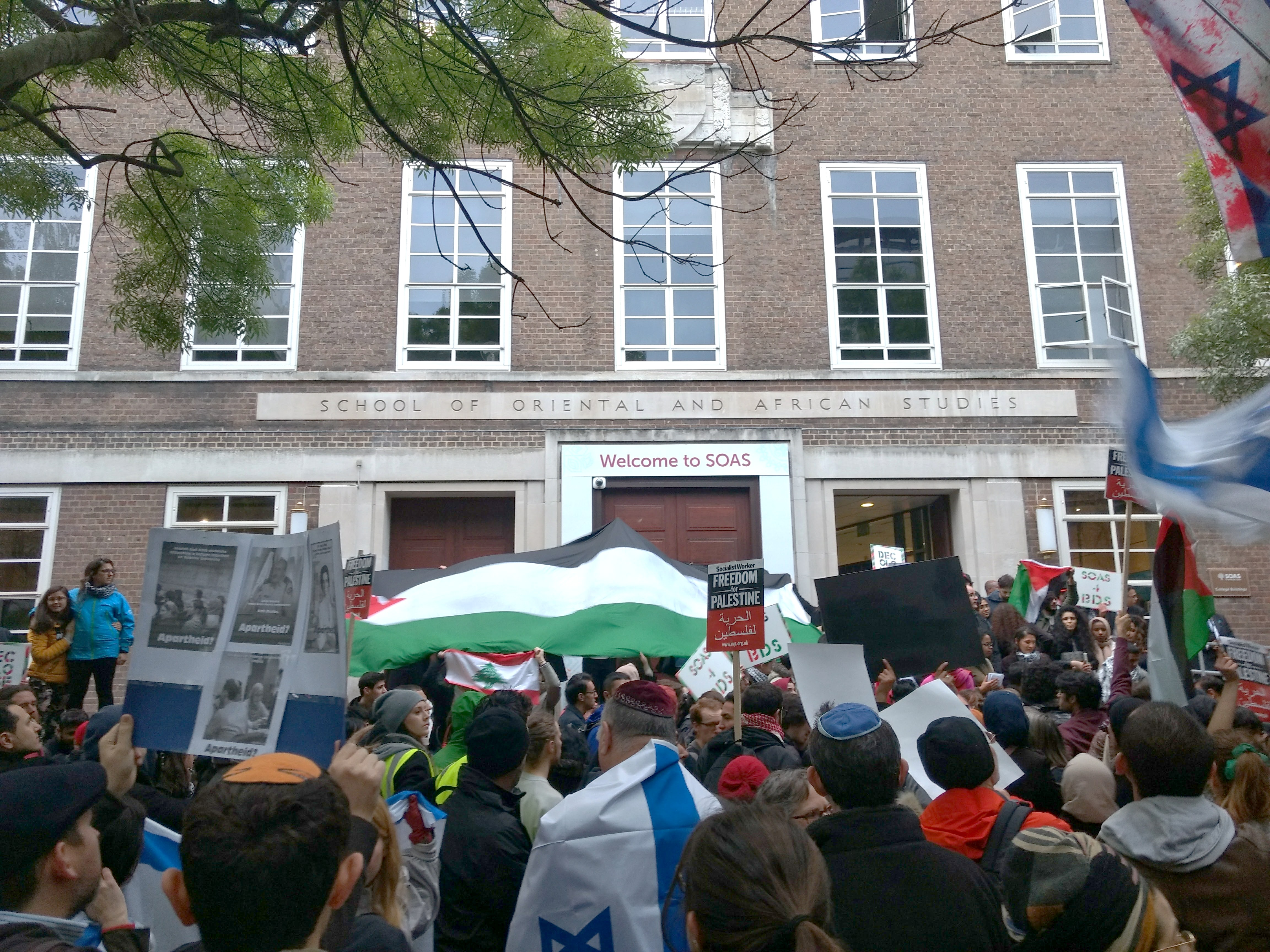 SOAS Boycott, Divestment and Sanctions movement (BDS) demonstration 27 April 2017